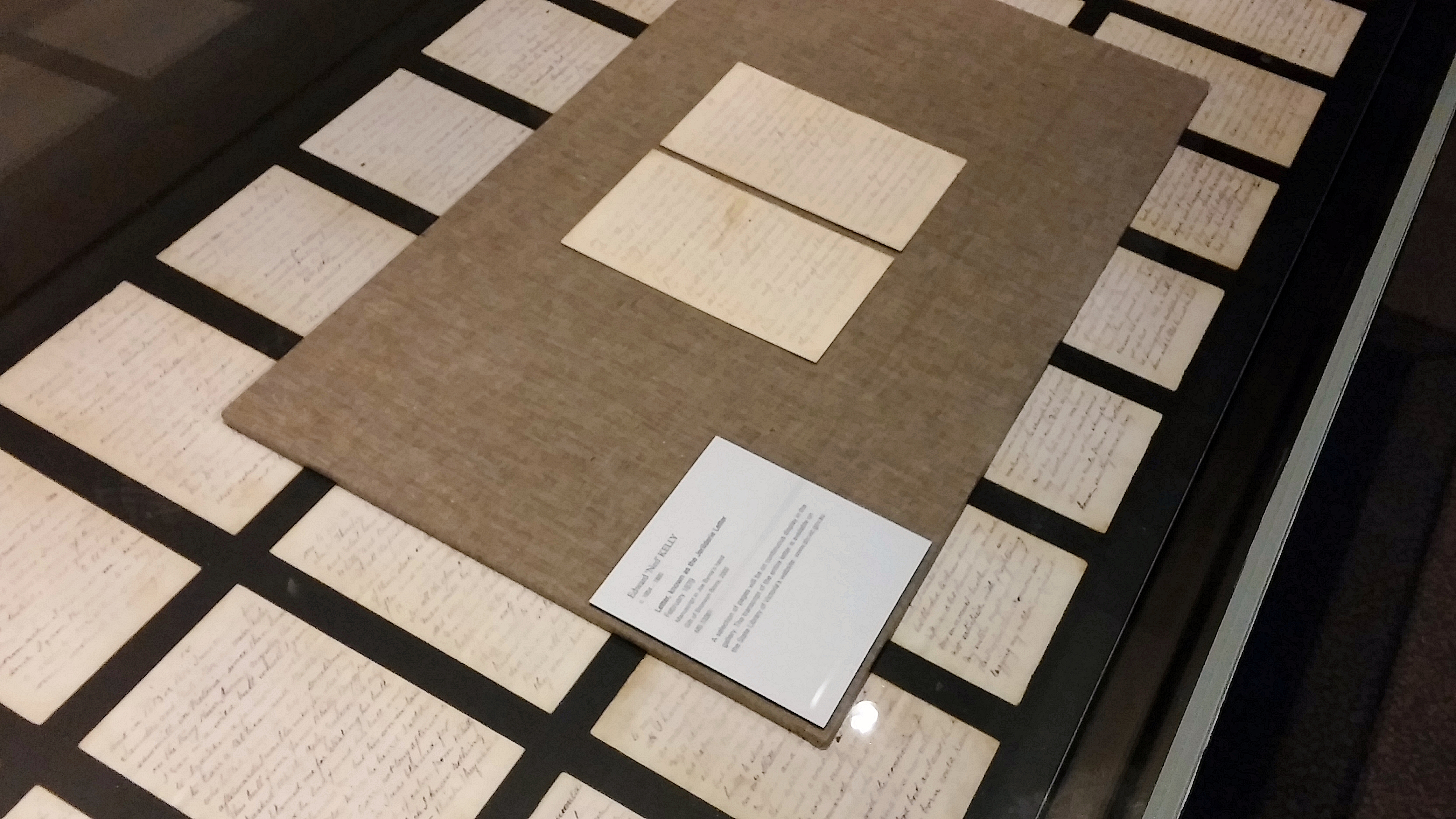 "The document known as the Jerilderie Letter was dictated by famous Australian bushranger Ned Kelly to fellow Kelly Gang member Joe Byrne in 1879. It is one of only two original Kelly documents known to have survived. The Jerilderie Letter is a 56-page document of approximately 8,000 words. In the letter Kelly tries to justify his actions, including the killing of three policemen in October 1878. He describes cases of alleged police corruption and calls for justice for poor families."